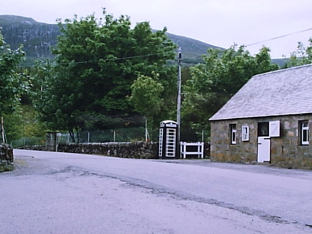 Achfary Village. The only black and white phone box in Scotland.